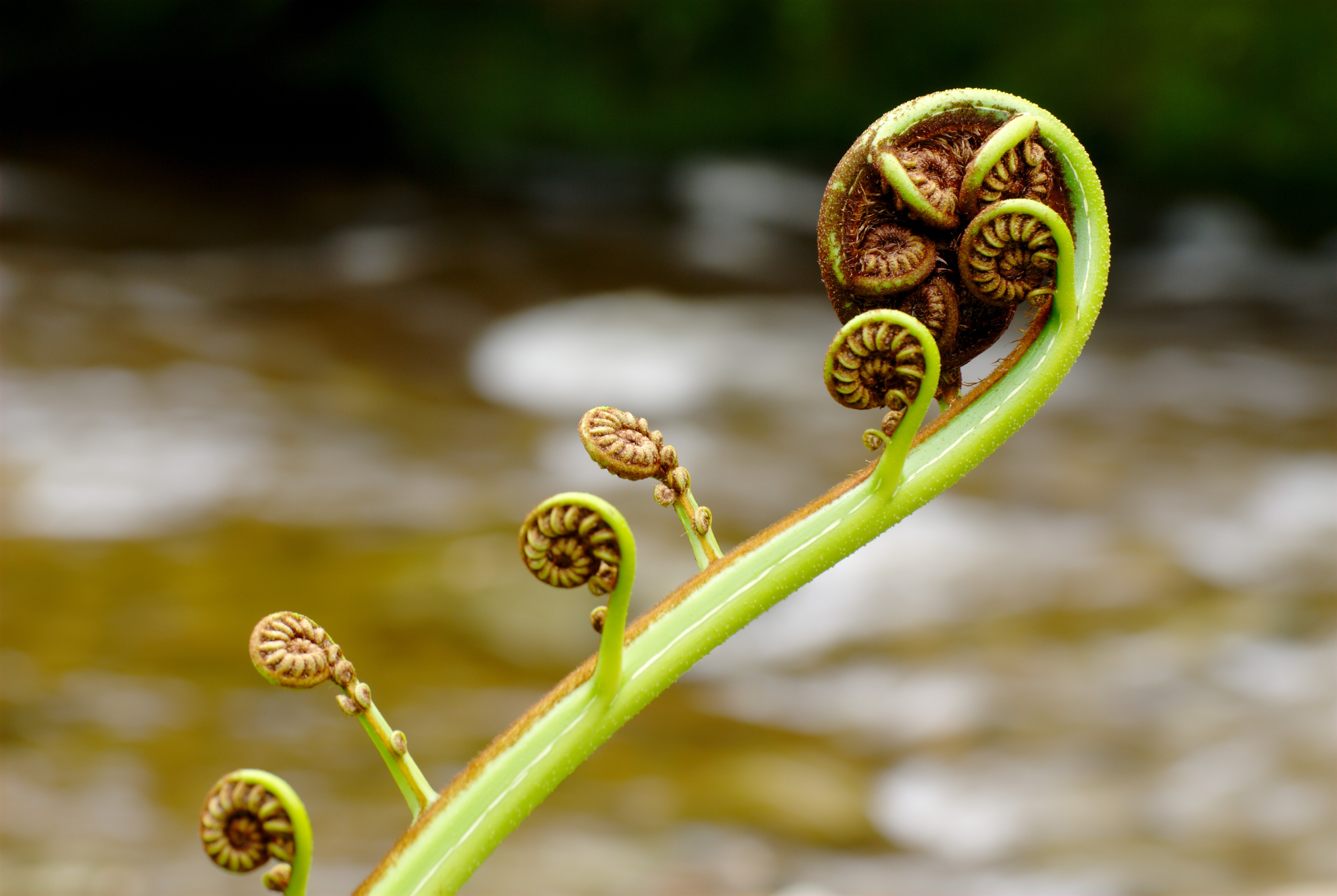 The unfolding frond of a Ponga (New Zealand tree fern) by the Akatarawa River, New Zealand.